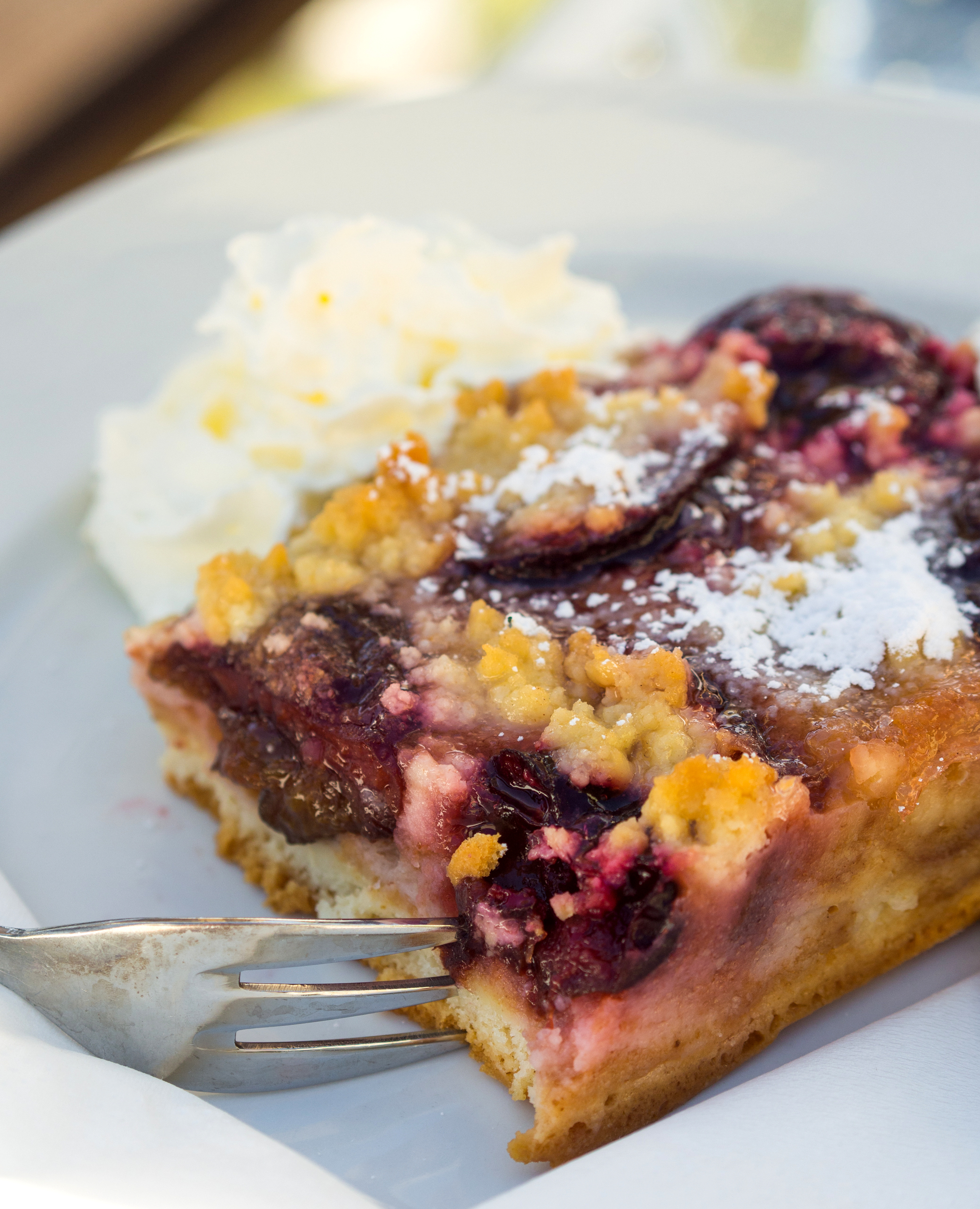 Zwetschkenkuchen (plum cake) at the Gaislachalm, Sölden, Tyrol.